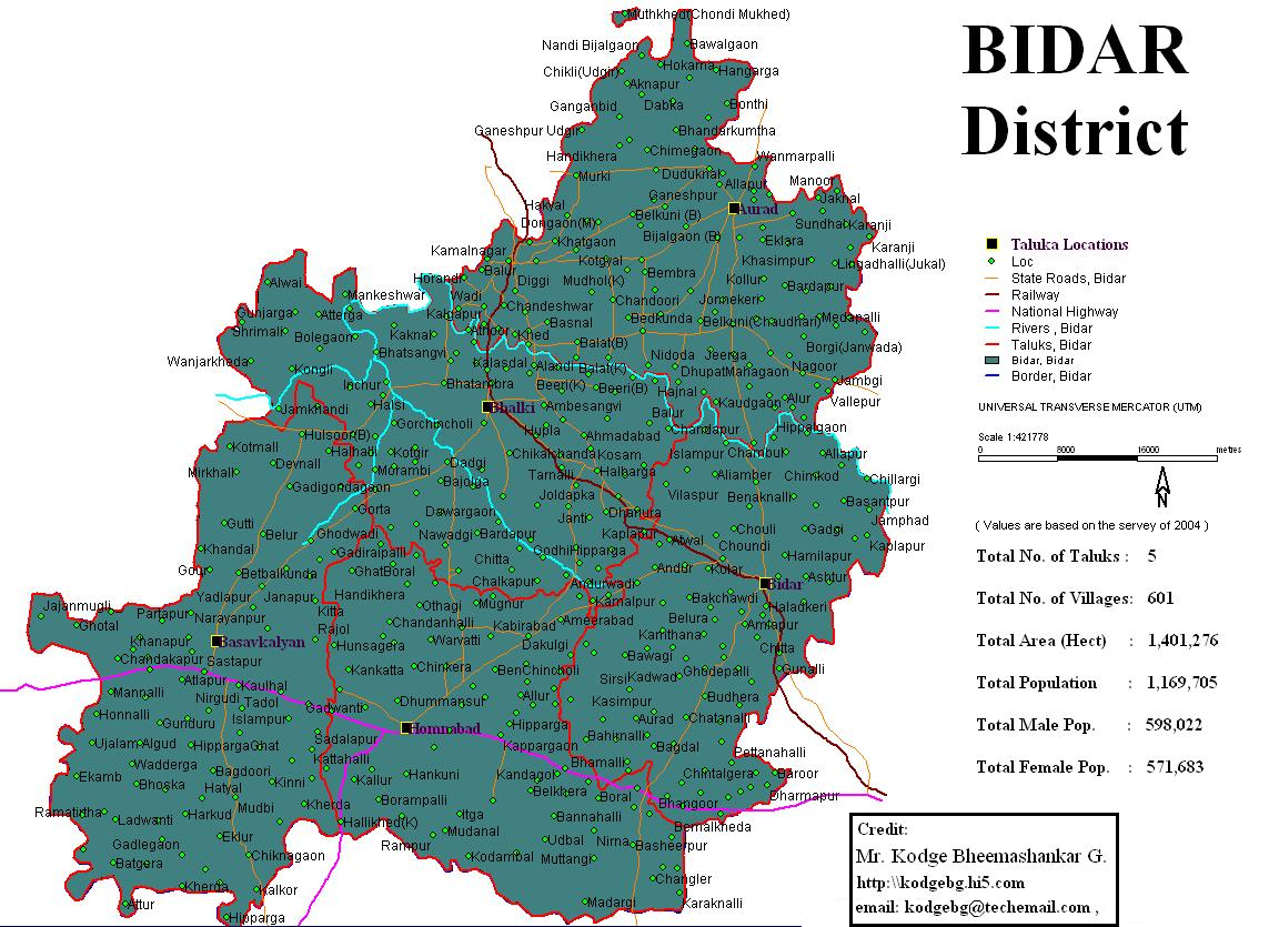 Map of Bidar District original altered from blank map of Wikimedia Commons.